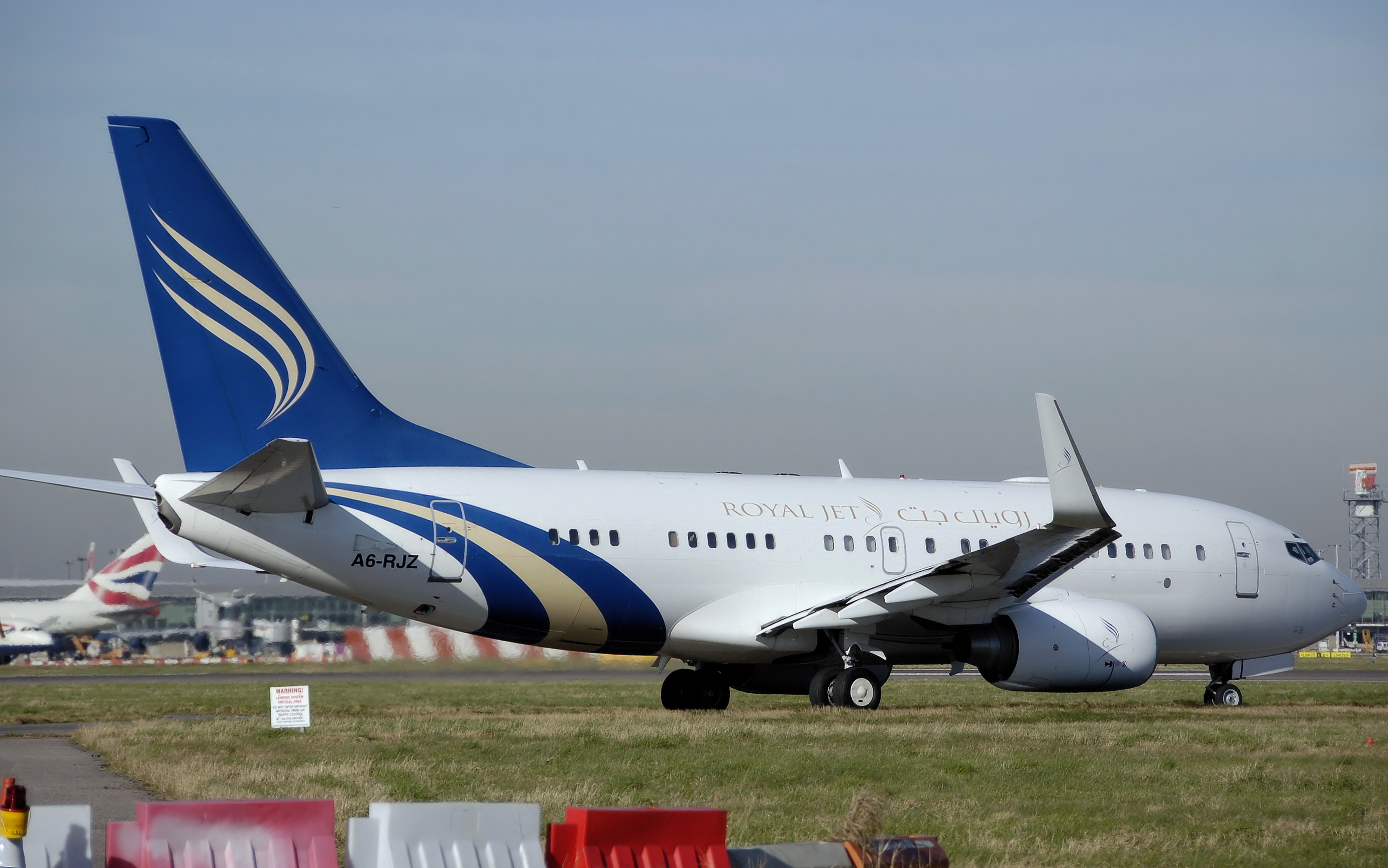 Royal Jet Boeing 737-700/BBJ (A6-RJZ) taxis at London Heathrow Airport, England. BBJ means Boeing Business jet. A6 is a Dubai (United Arab Emirates) registration).